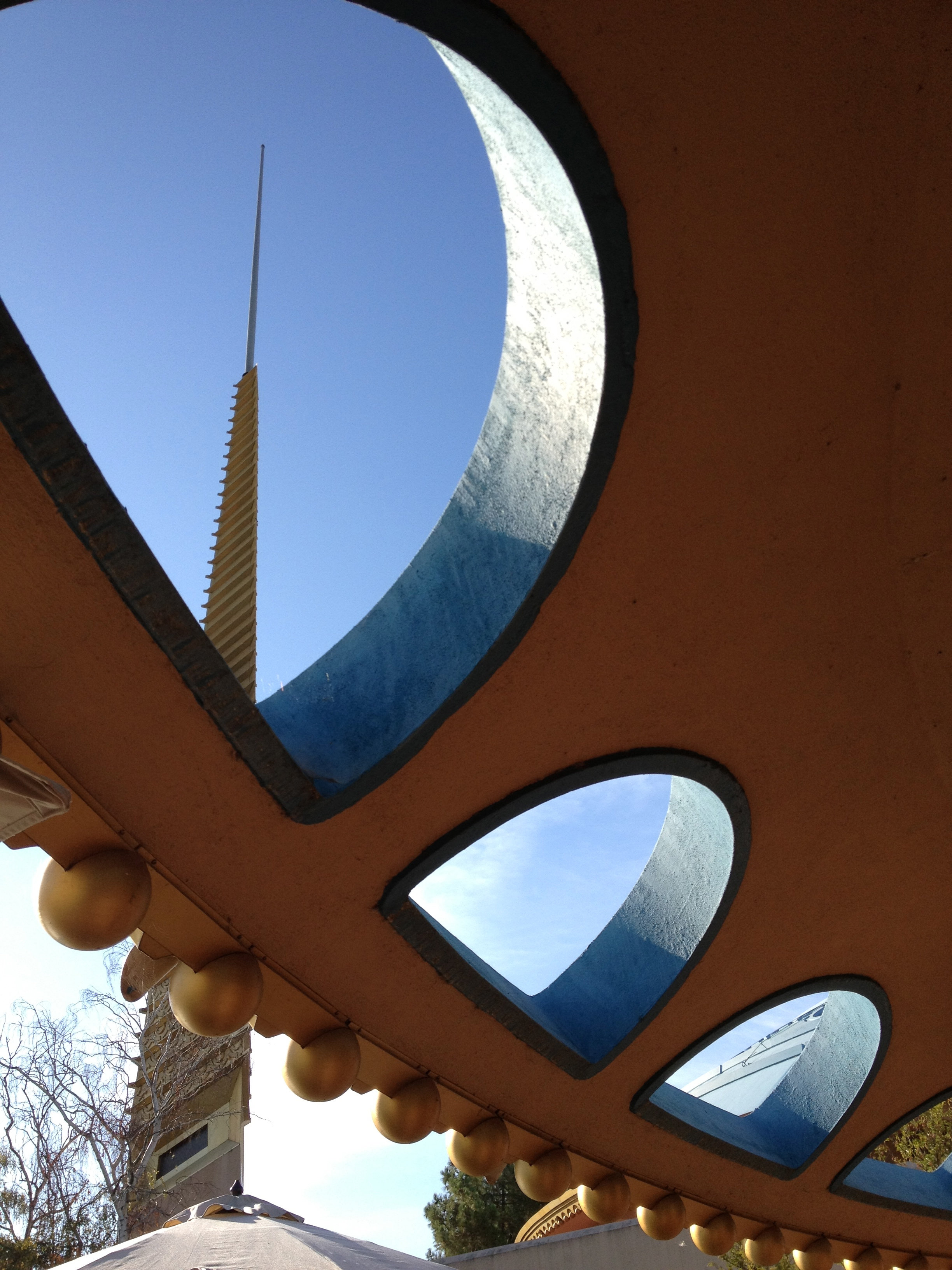 View of the Marin County Civic Center Spire